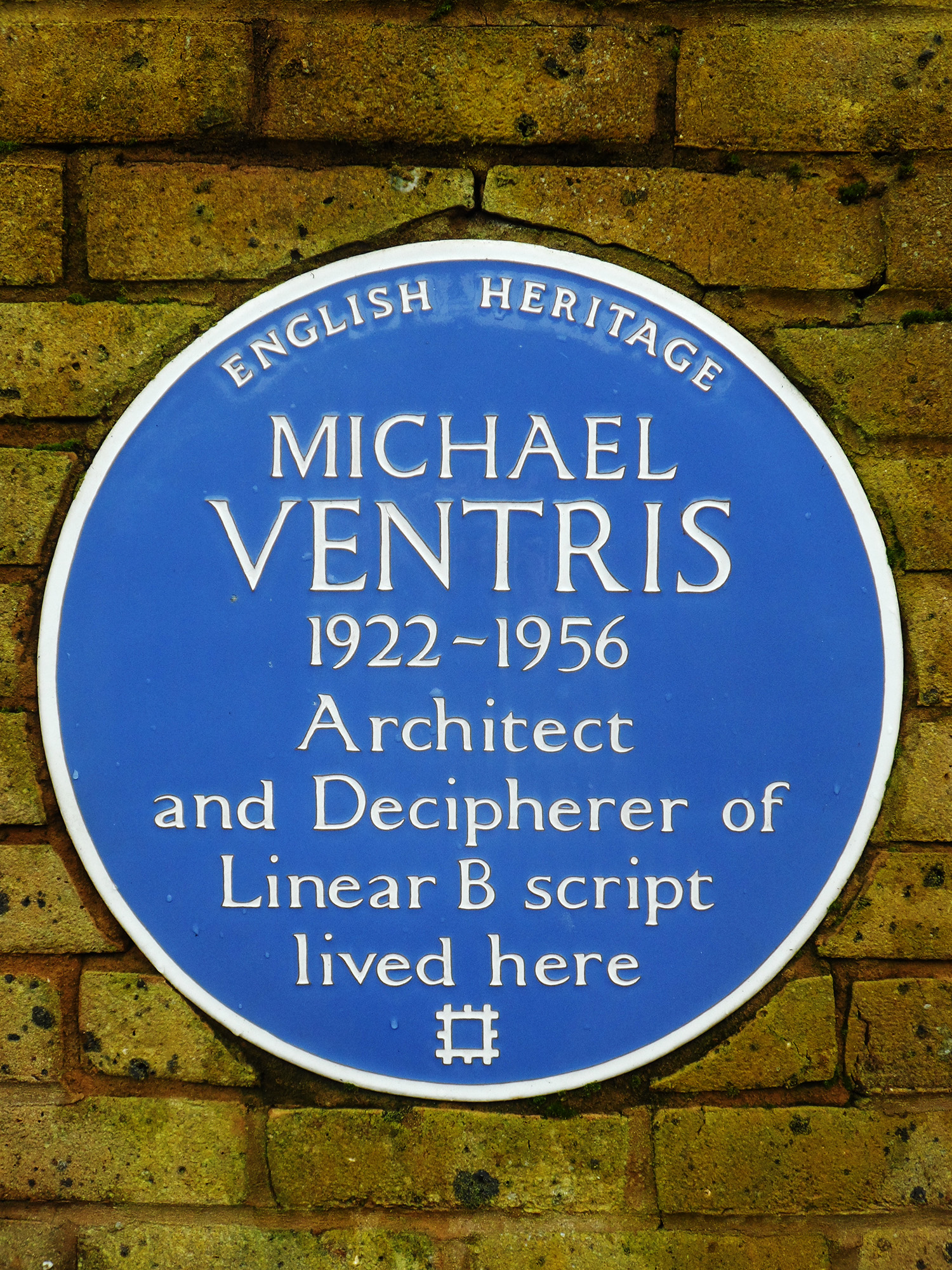 Blue plaque erected in 1990 by English Heritage at 19 North End, Hampstead, London NW3 7HR, London Borough of Camden